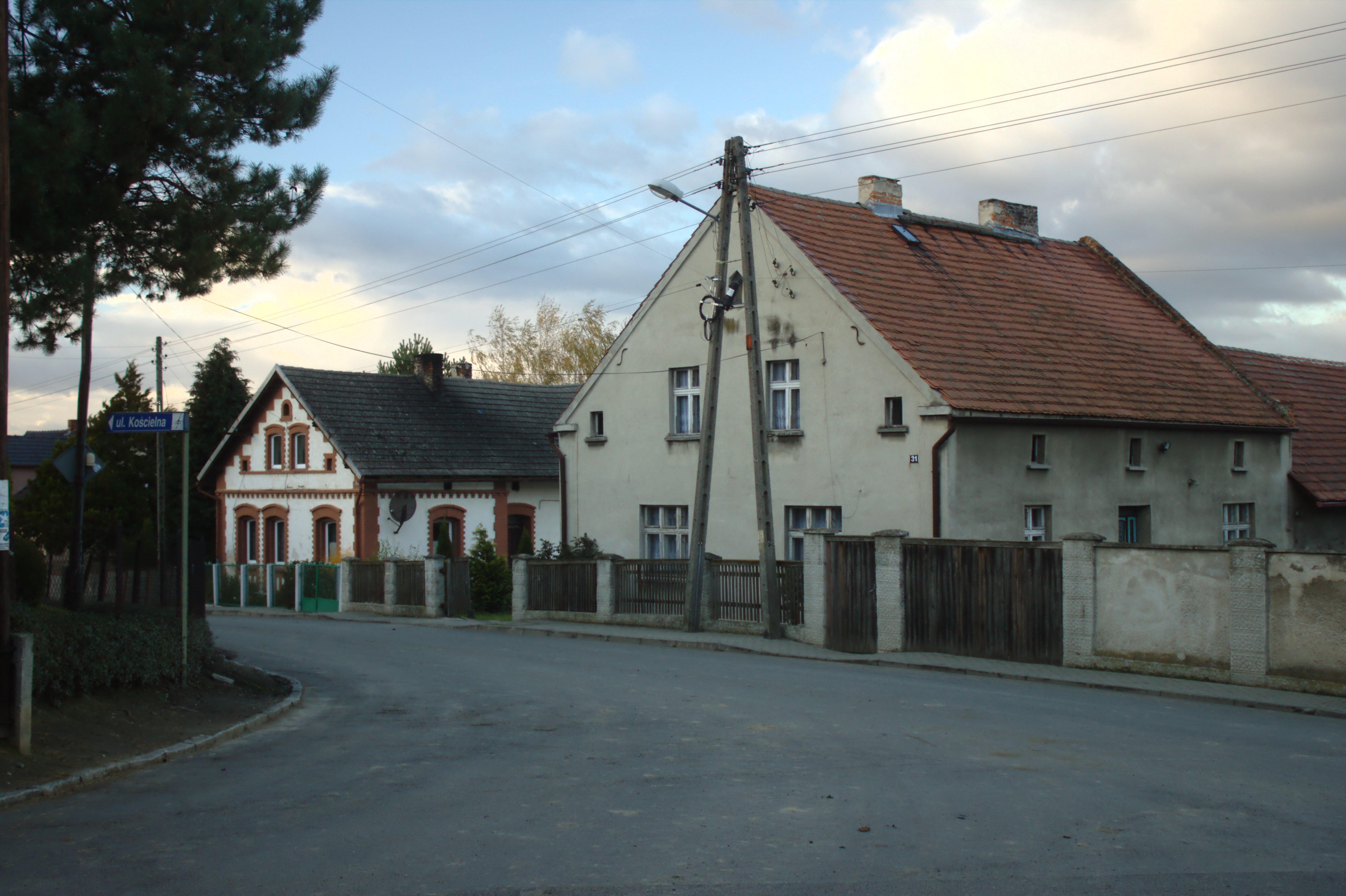 Buildings in Grzędzin, Poland